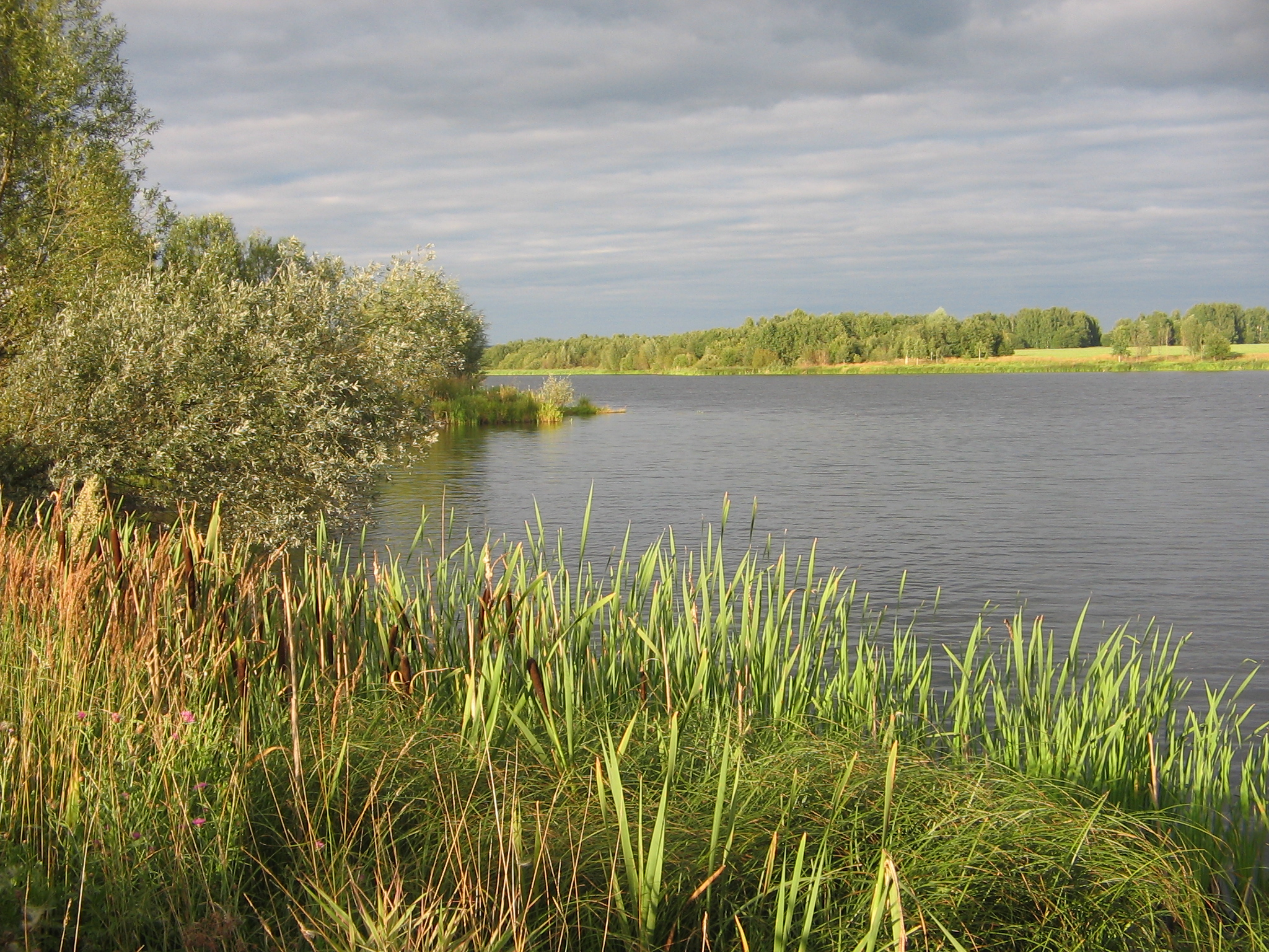 Soza River in the village of Black Key